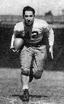 Marshall Goldberg, legendary running back of the Pitt Panther football team, in 1939.